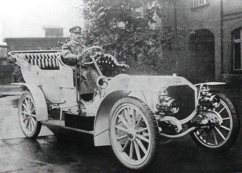 Paul Beckmann on Herkomer-Vehicle 40 HP (Herkomer Konkurrenz 1906)